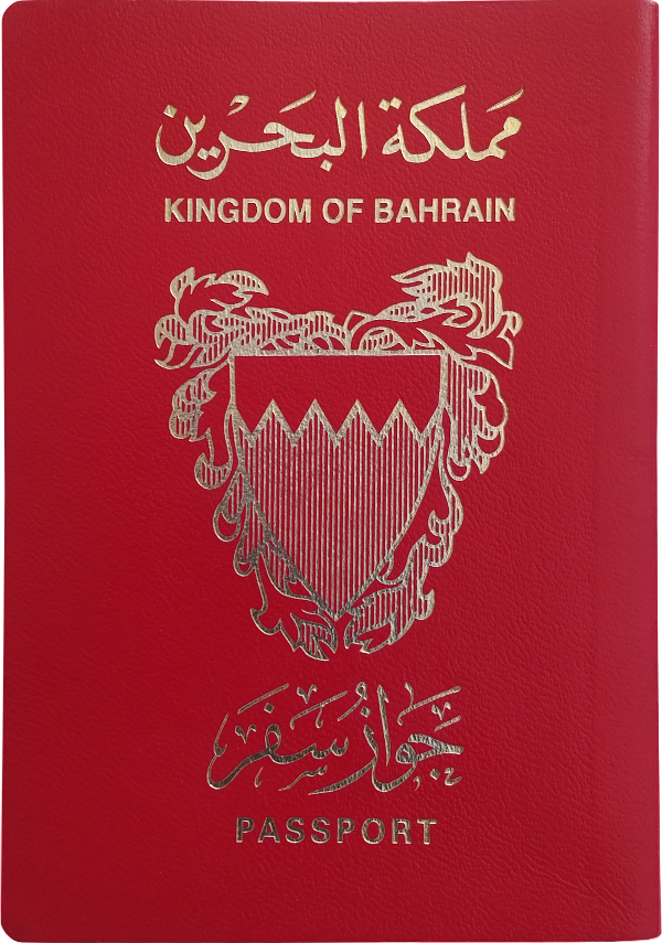 Bahrain passport